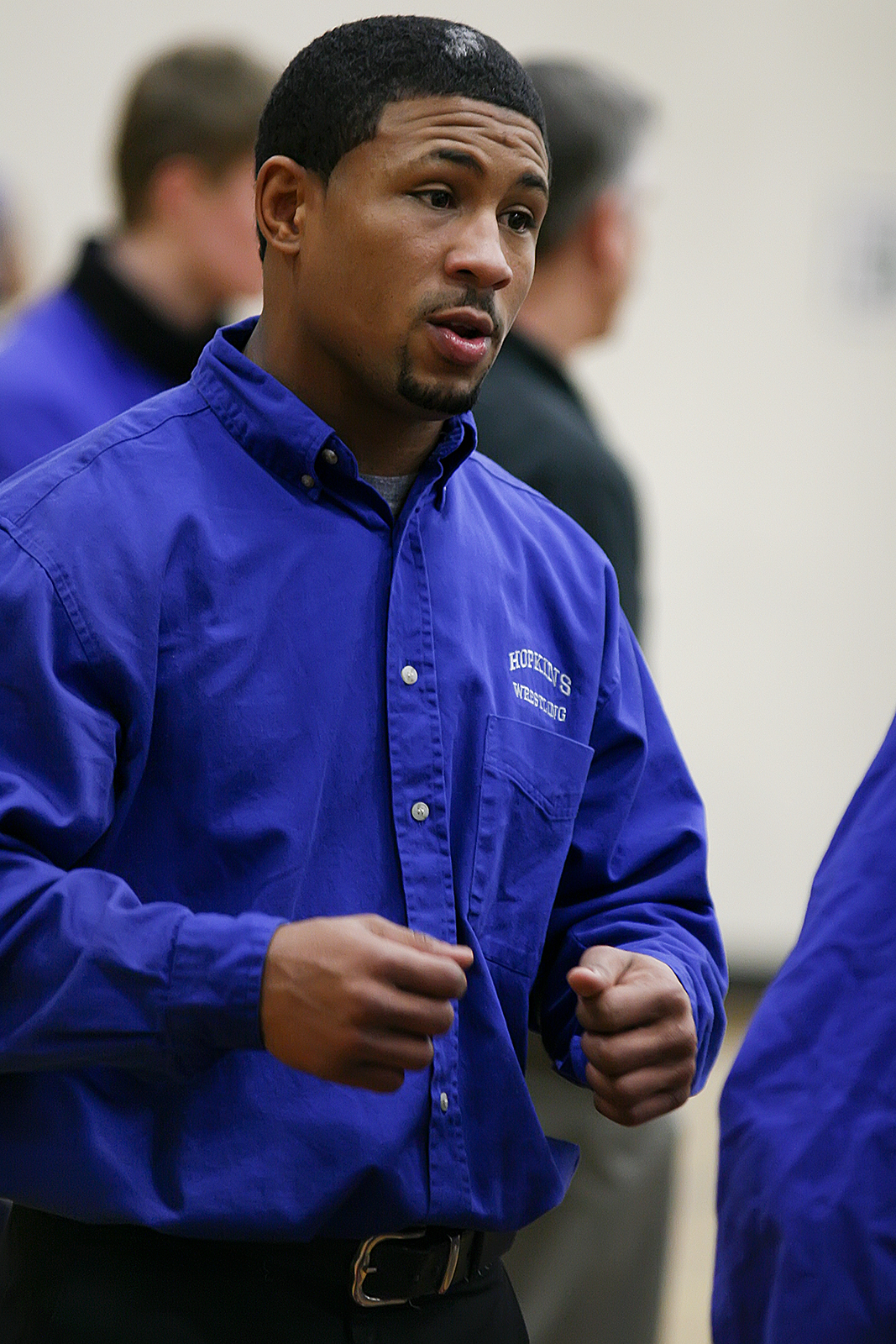 Hopkins High School assistant wrestling coach Marcus LeVesseur before a match with Northfield High School on Dec. 18, 2009 in Northfield, Minn. LeVesseur is best known for his four NCAA Division III individual titles and for going undefeated (155-0) in college. LeVesseur currently competes as a professional mixed martial arts fighter.